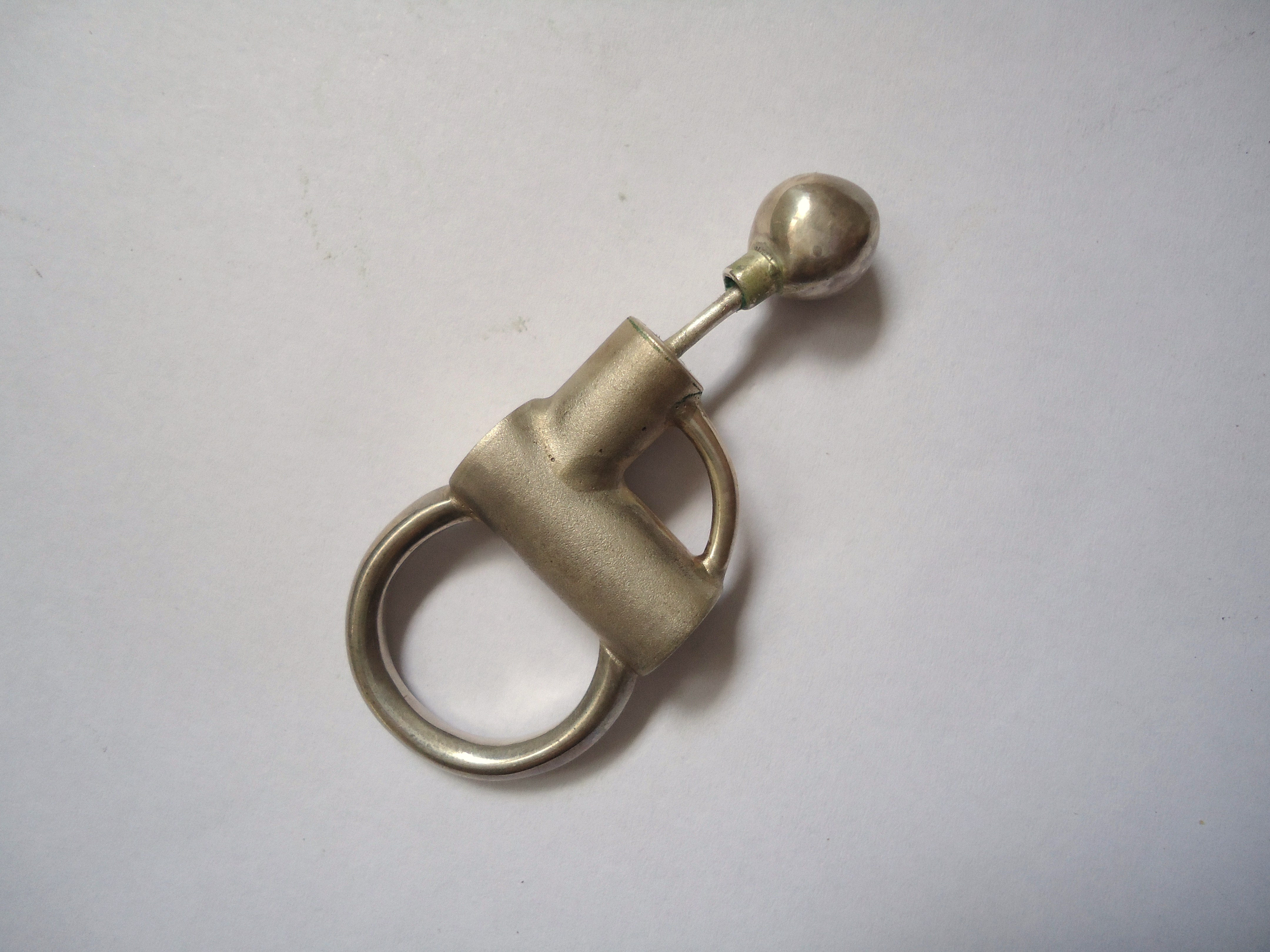 Made by Mauro Cateb, Brazilian jeweler.